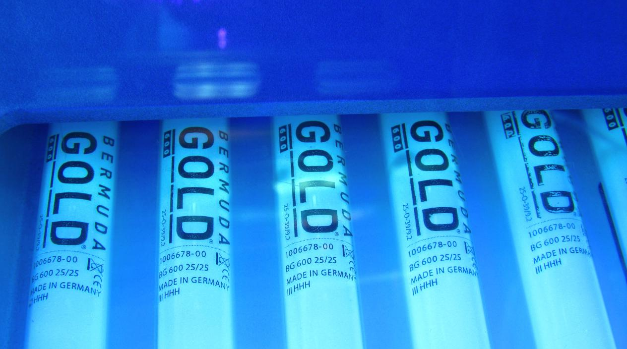 Bermuda Gold tanning lamps